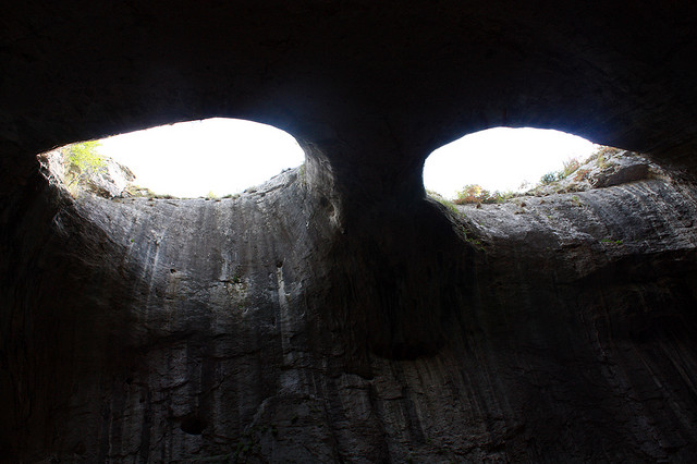 Coming back to a new story of an amazed girl who has first come to "The Eyes" in the Prohodna Cave near Karlukovo, a thought came to me that it may be good to post some of my photos of this natural phenomenon - the photos are made this july, during my second return to the mystery caves and rock monasteries region.